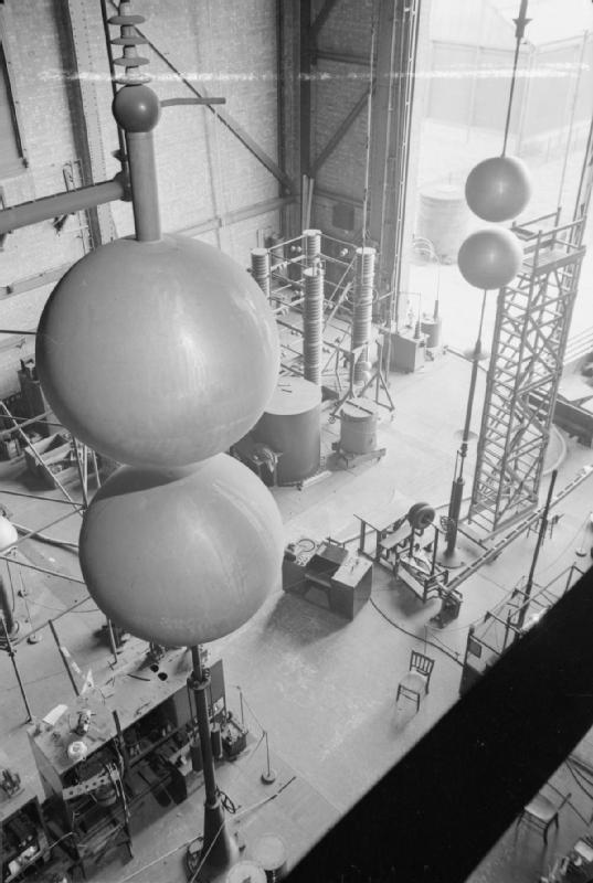 National Physical Laboratory- Science and Technology in Wartime, Teddington, Middlesex, England, UK, 1944 A general view of the High Tension Laboratory in the Electricity Division of the National Physical Laboratory. The laboratory is equipped with apparatus to develop very high voltage in order to study the properties of insulators and high tension cables. Clearly visible are sphere gaps used for high-voltage measurements, and the generator which is used to produce surge voltages of 2,000,000 volts.